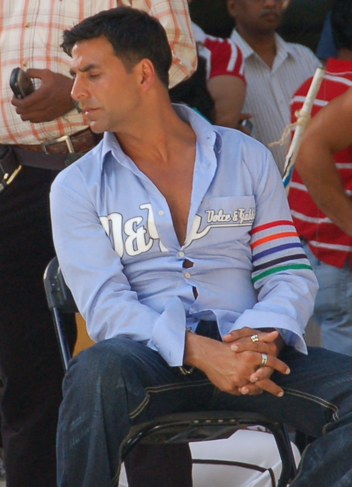 Akshay Kumar in Sydney for the shooting of Heyy Babyy in February 2007. Taken by Wouter!